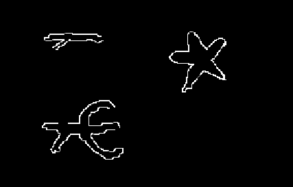 Pictograms from Dolmen of Menga, Antequera, Spain. Drawing.